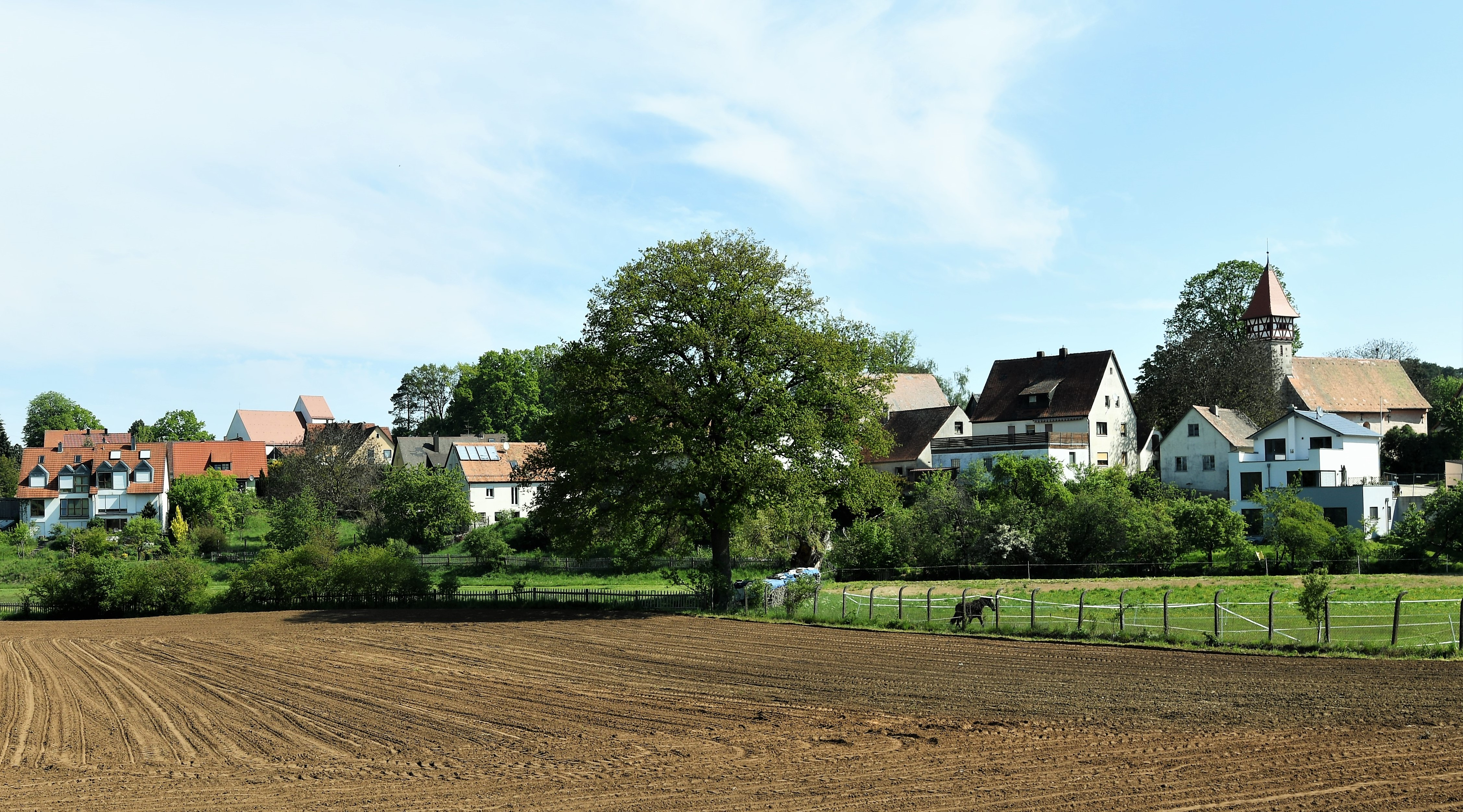 View of Penzenhofen from the south, the parish church of St. John the Baptist is visible at the right edge of the picture.